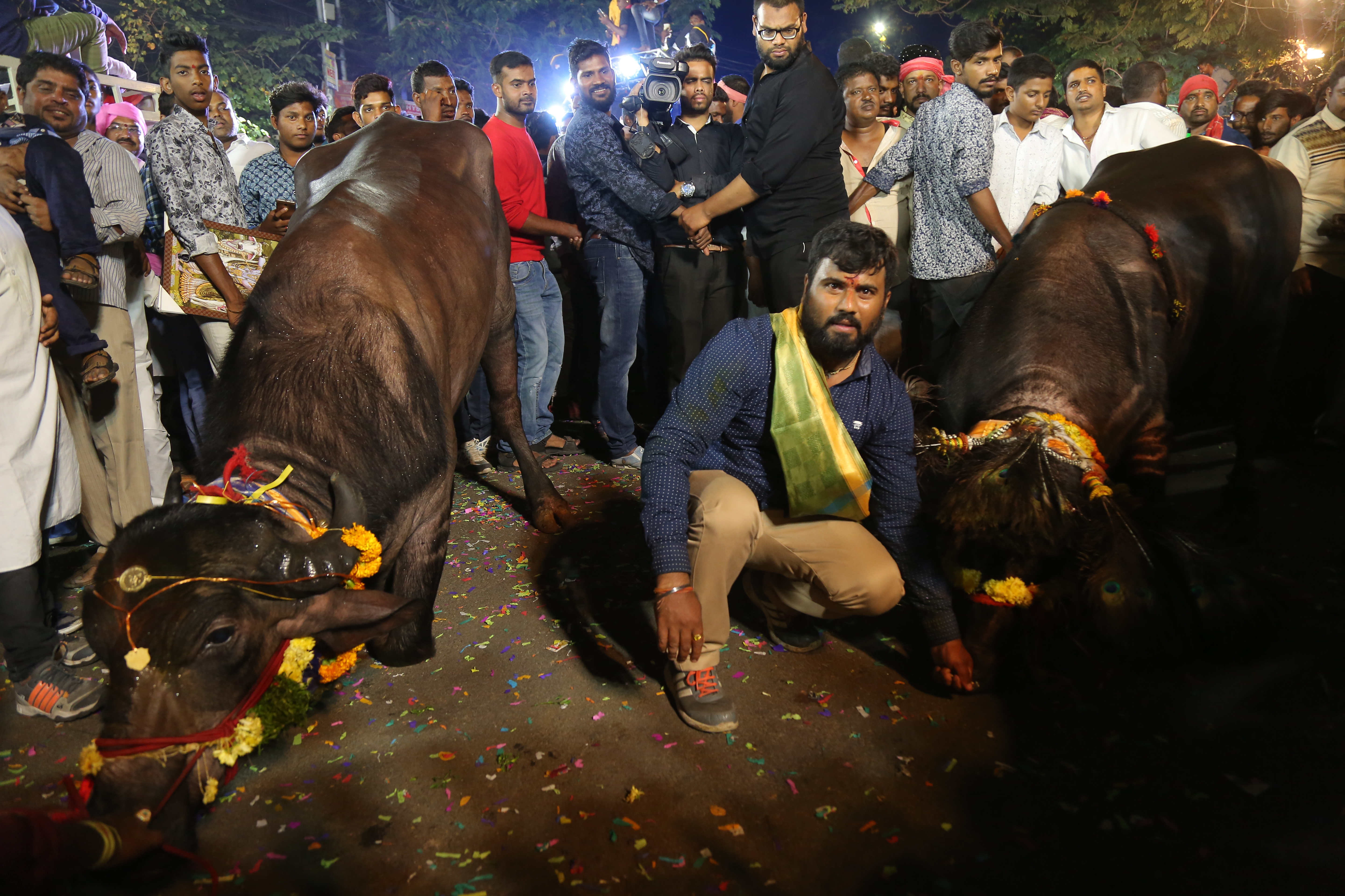 Buffalos Dandam